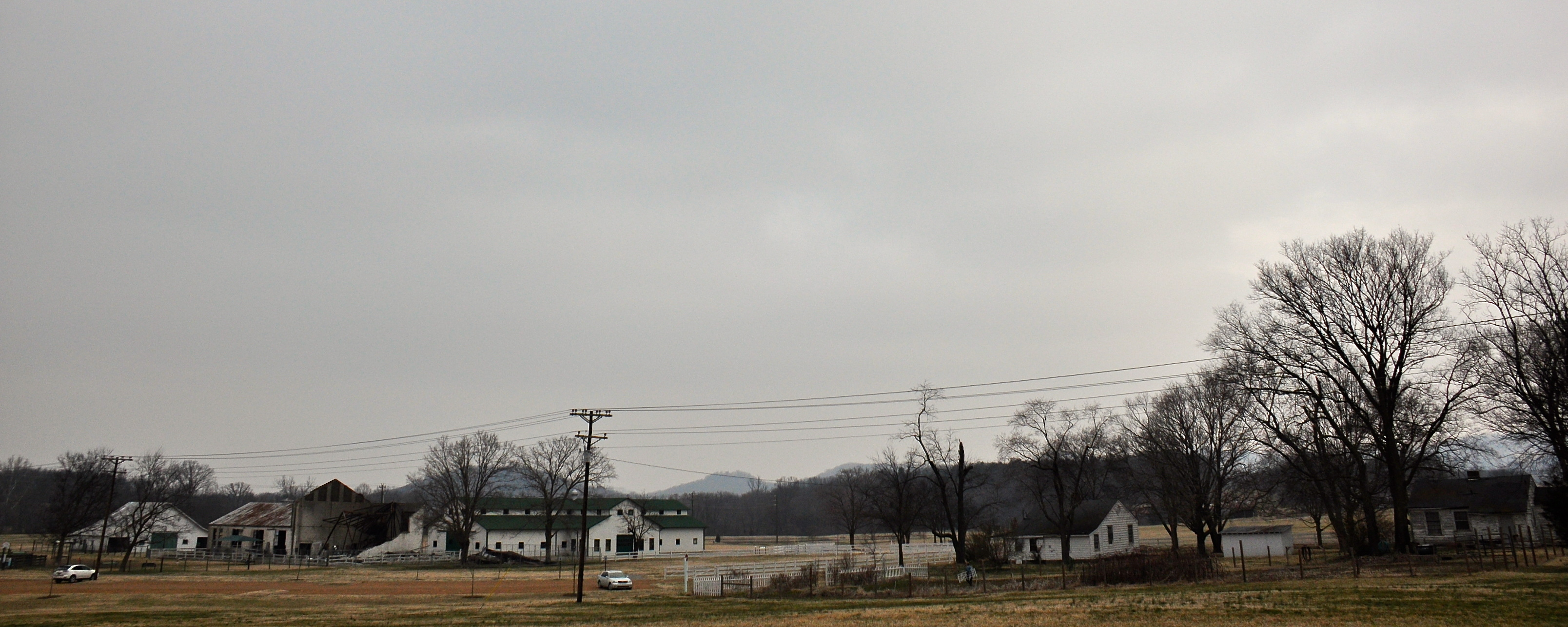 Harlinsdale Farm, Franklin Road, Franklin, Williamson County, Tennessee